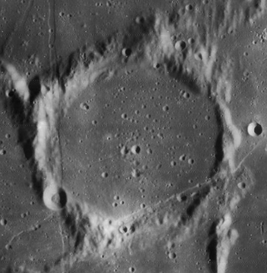 Parry, on the moon.